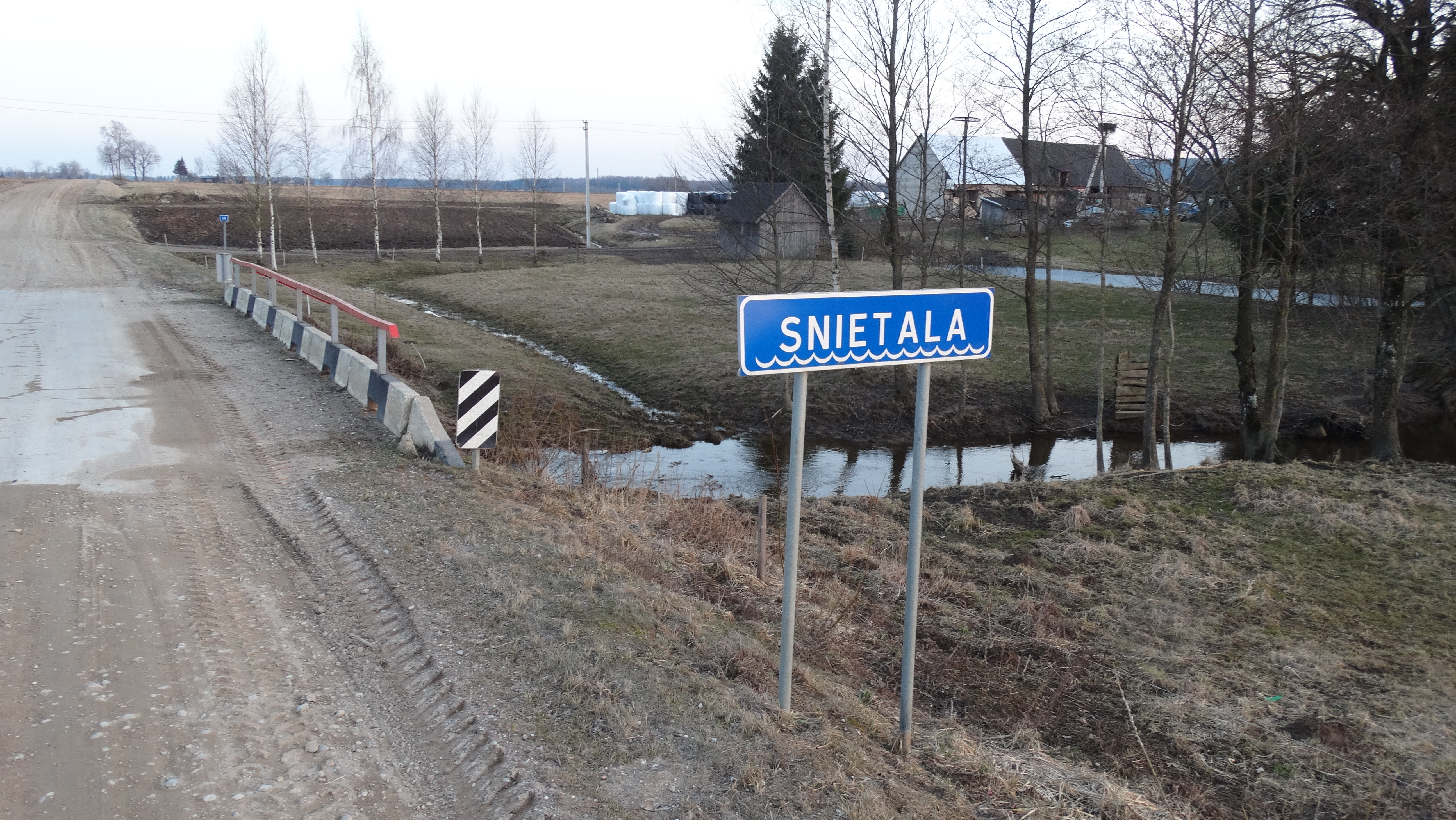 Snietala River, Jurbarkas district, Lithuania